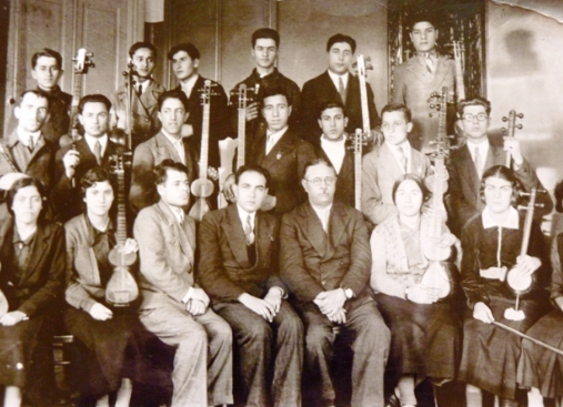 Said Rustamov and Uzeyir Hajibeyli (center)